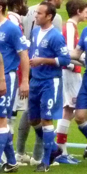 Landon Donovan of Everton F.C. shaking hands before his Premier League debut against Arsenal F.C. at Emirates Stadium, January 2010.